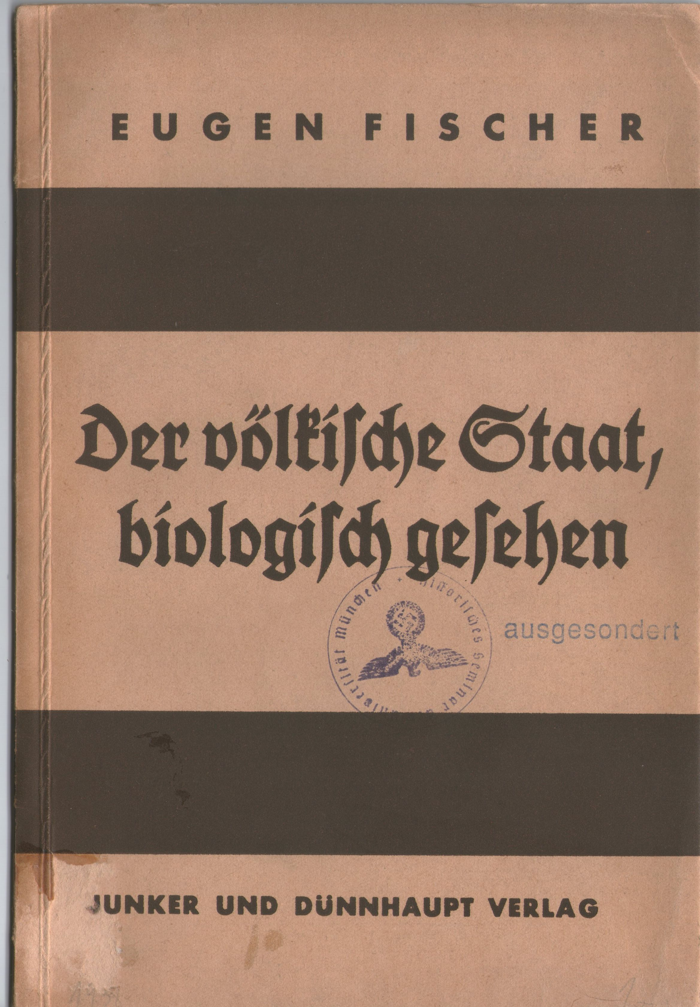 Book Cover: Eugen Fischer: Der völkische Staat, biologisch gesehen. 1933; Collection Markus Wolter